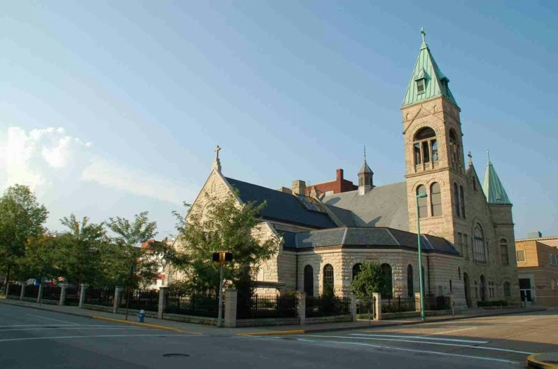 Basilica of the Co-Cathedral of the Sacred Heart